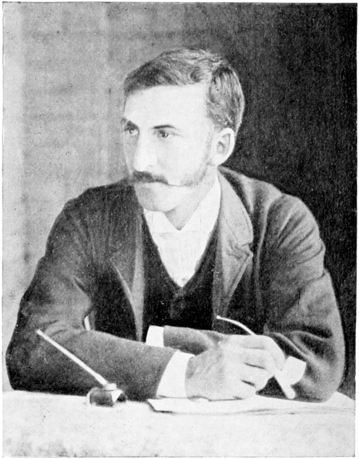 Portrait of Australian poet Barcroft Boake